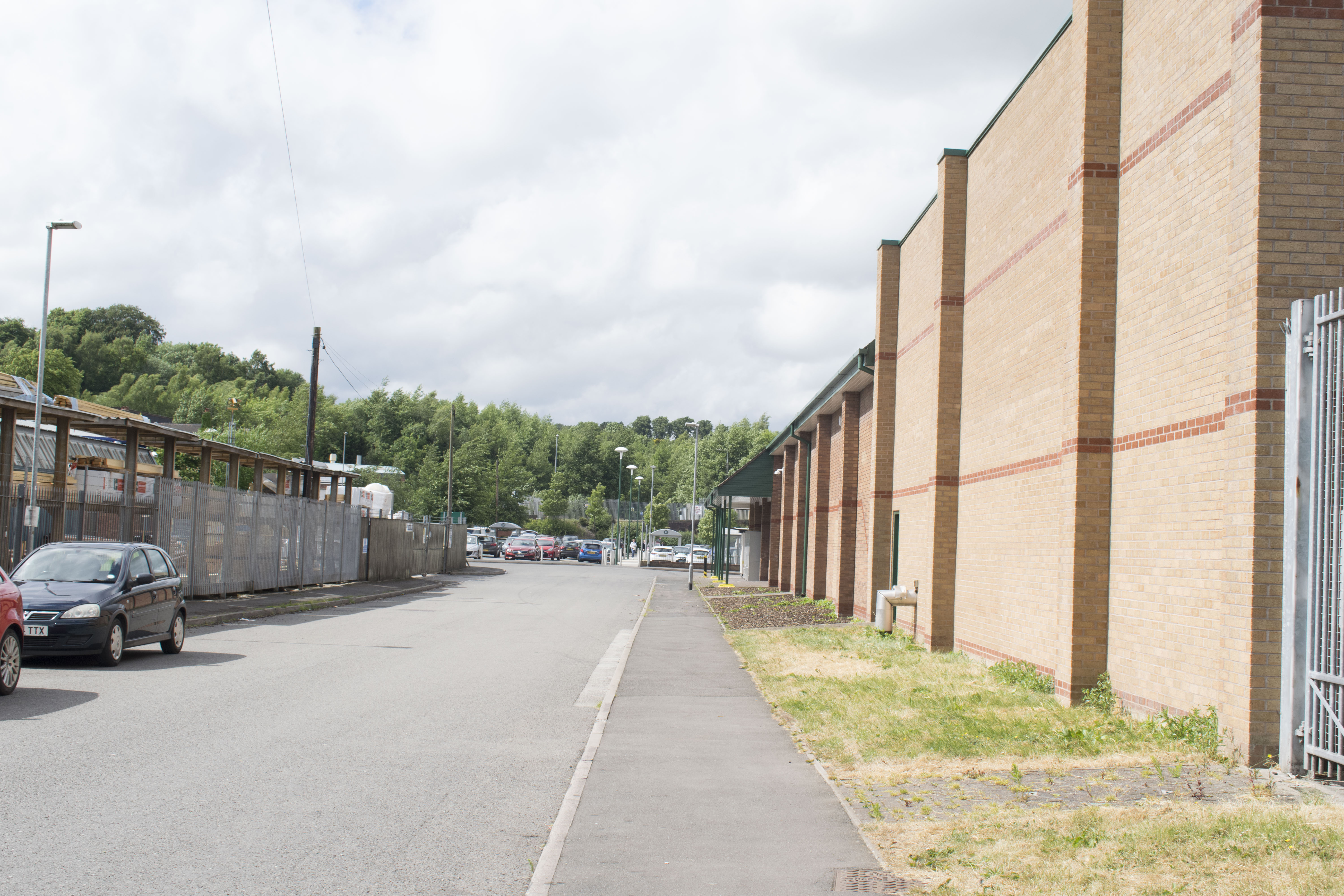 My own, please ask for permission before distributing it for own or other uses.